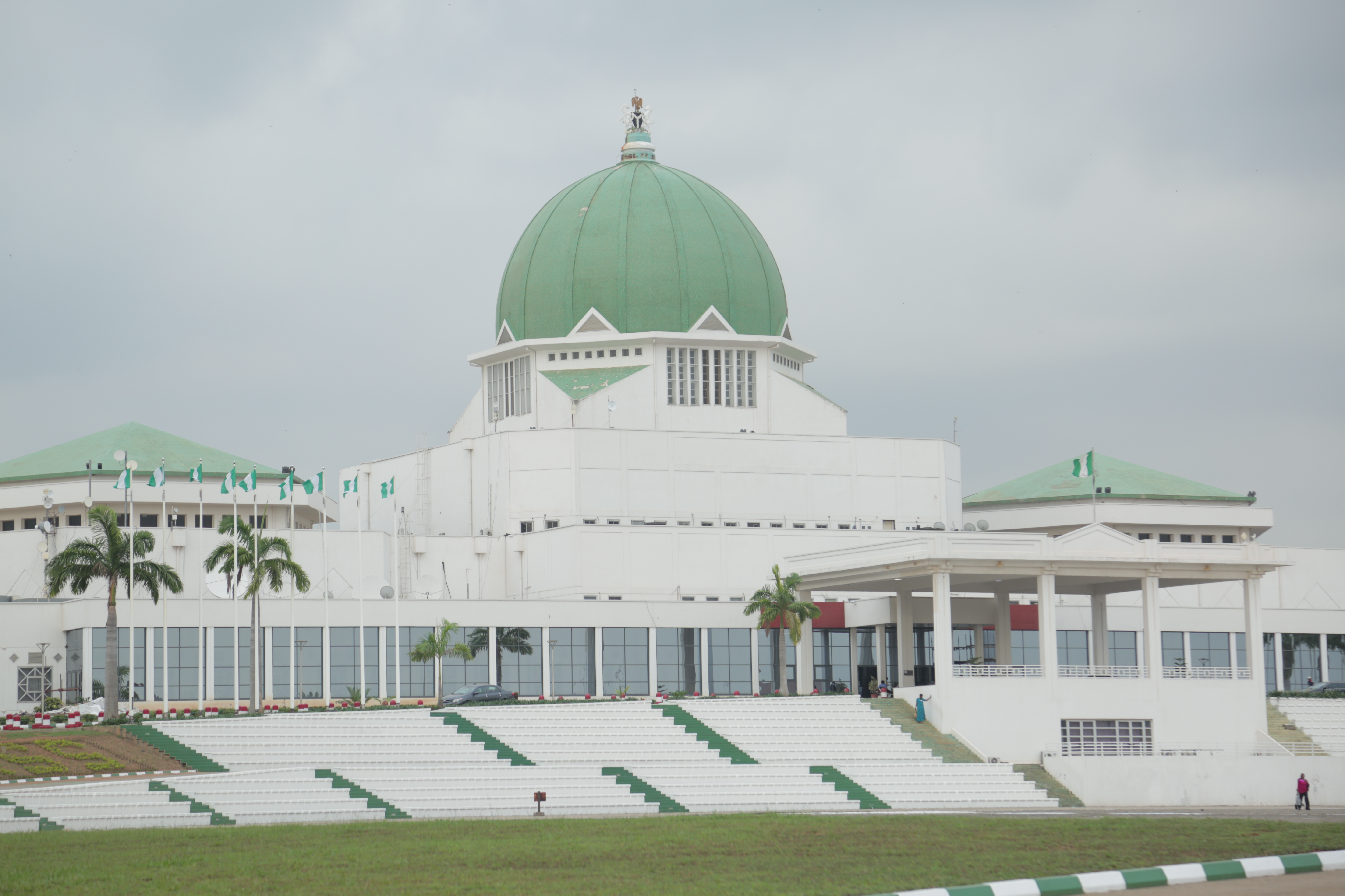 Nigeria's Parliament